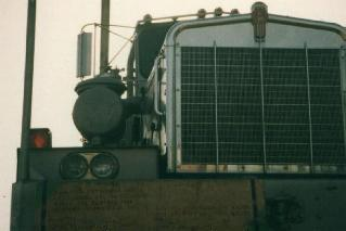 Kenworth in Homs, Syria on 24-03-1980